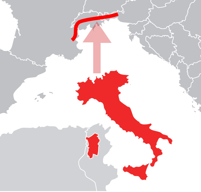 Simple illustration of Italy colliding with Switzerland and Austria, forming the Alps